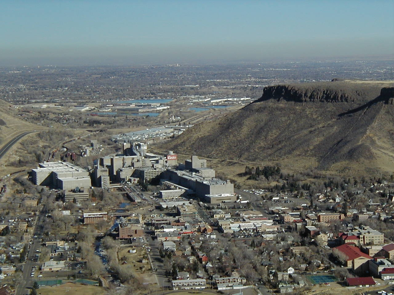 Coors Brewery and Golden, Colorado, with Denver in the background. On the right is Table Mountain. Taken from Lookout Mountain.